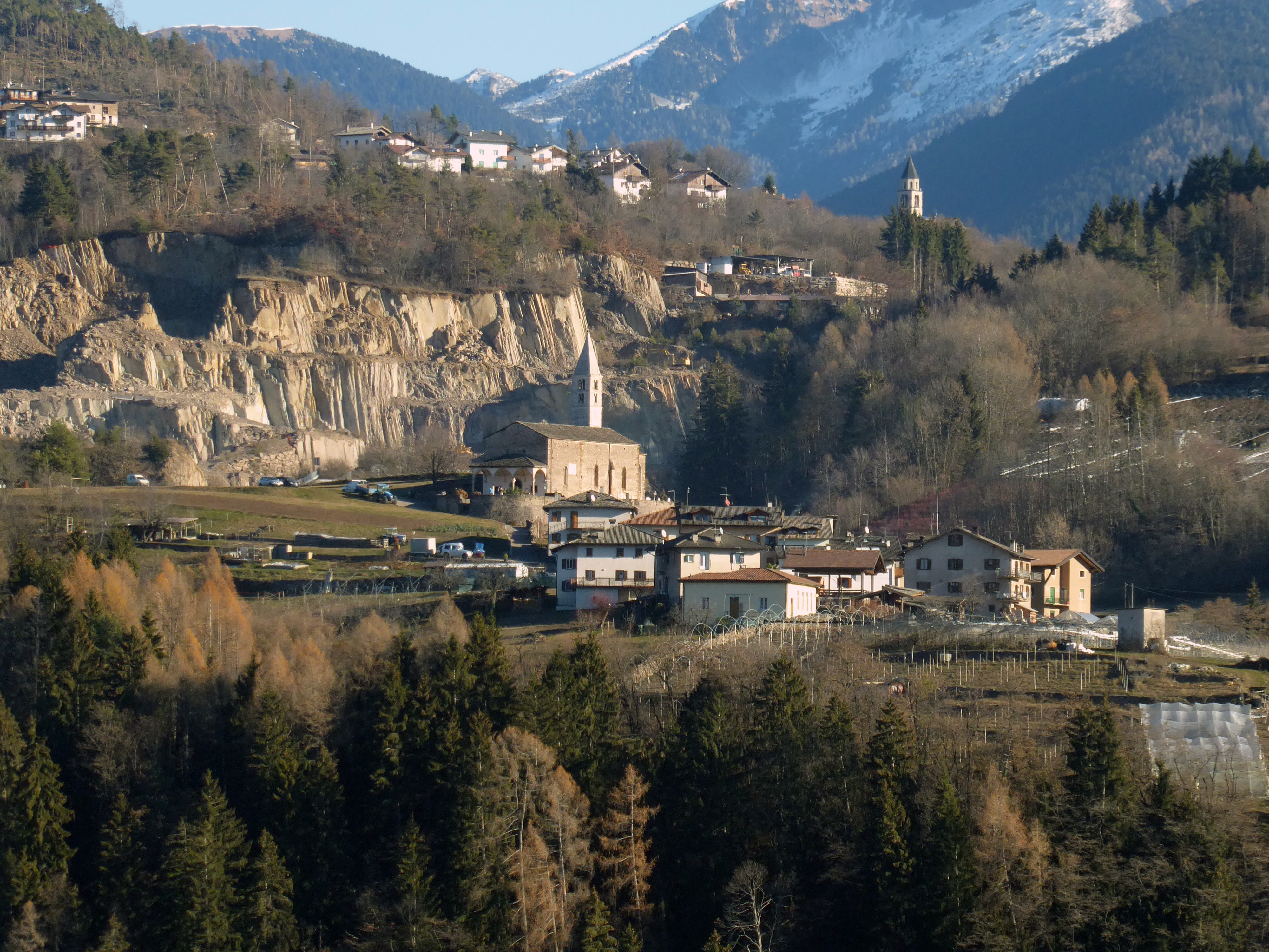 San Mauro (Baselga di Piné) as seen from Fornace